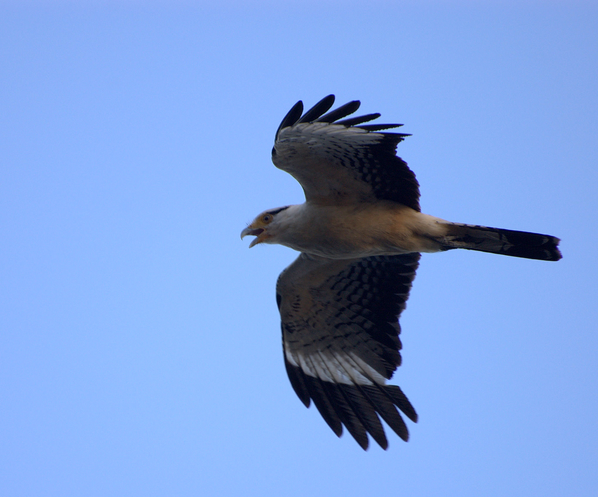 A Yellow-headed Caracara (Milvago chimachima)